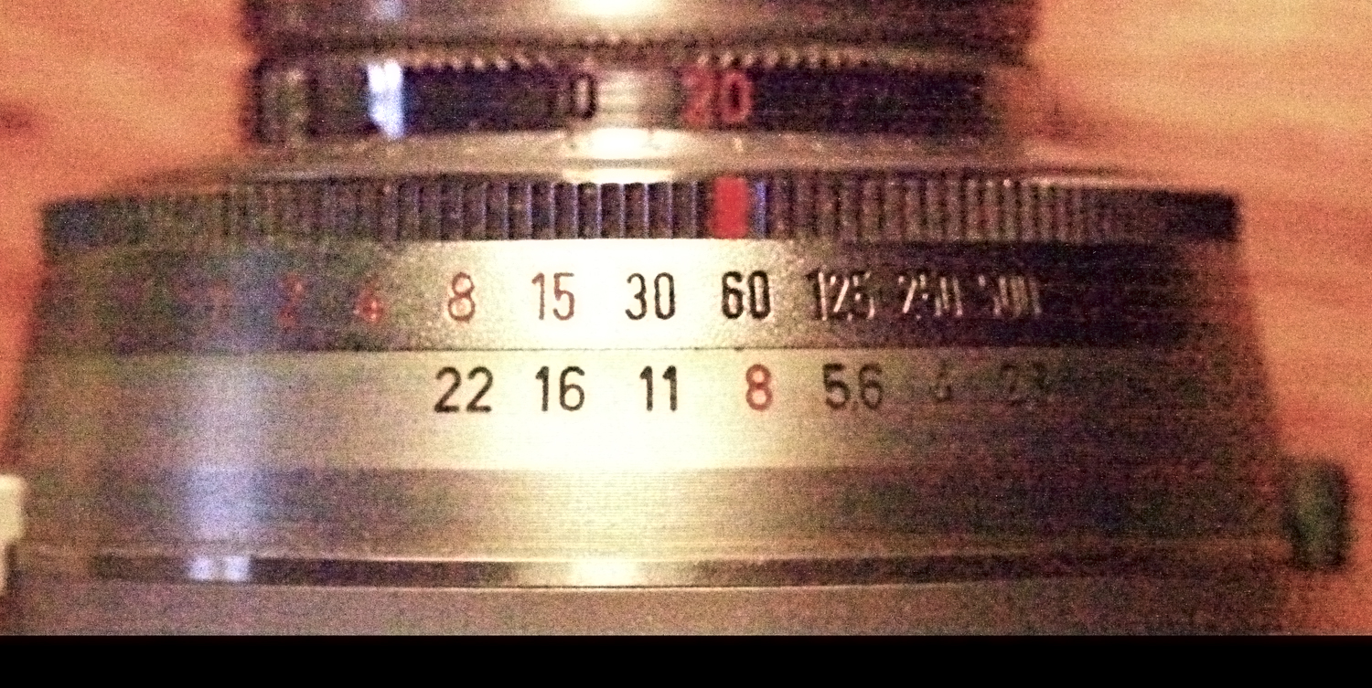 Zeiss Ikon Contessa hyperfocal markers in red